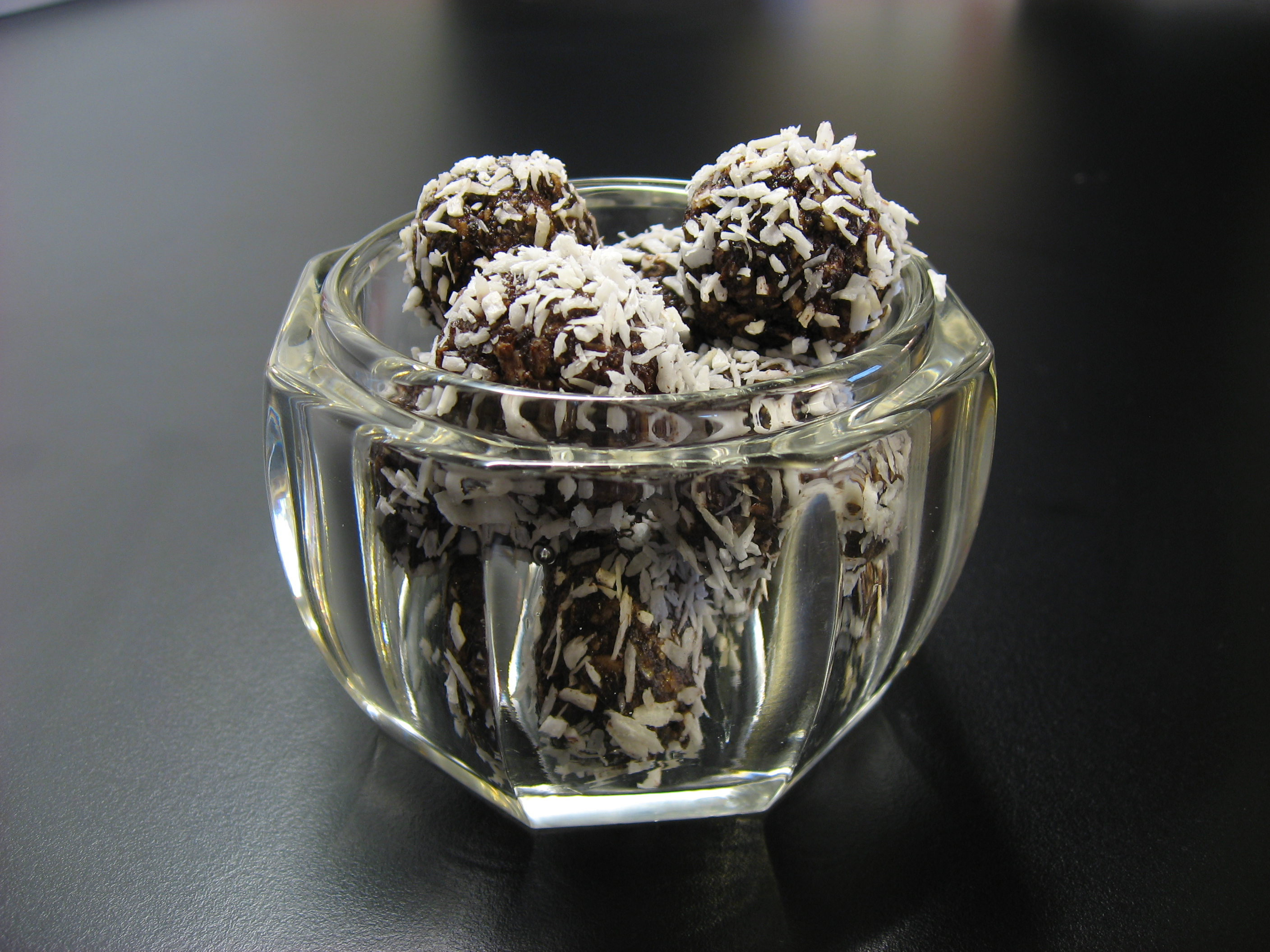 Oatmeal balls (Danish:"Havregrynskugler") made by my daughter and I. A traditional and very popular christmas sweet in Denmark. Recipe: 250 g butter, 250 g cane sugar, 65 g cacao, 350 g oat meal, a cup of strong cold coffee, dessicated coconut. Mix butter, sugar, cacao and oat meal. Add cold strong coffee until the dough is formable by hand. Form balls using hand of approximately 2 cm diameter. Roll them in dessicated coconut. Place cold in a refrigerator. Enjoy!